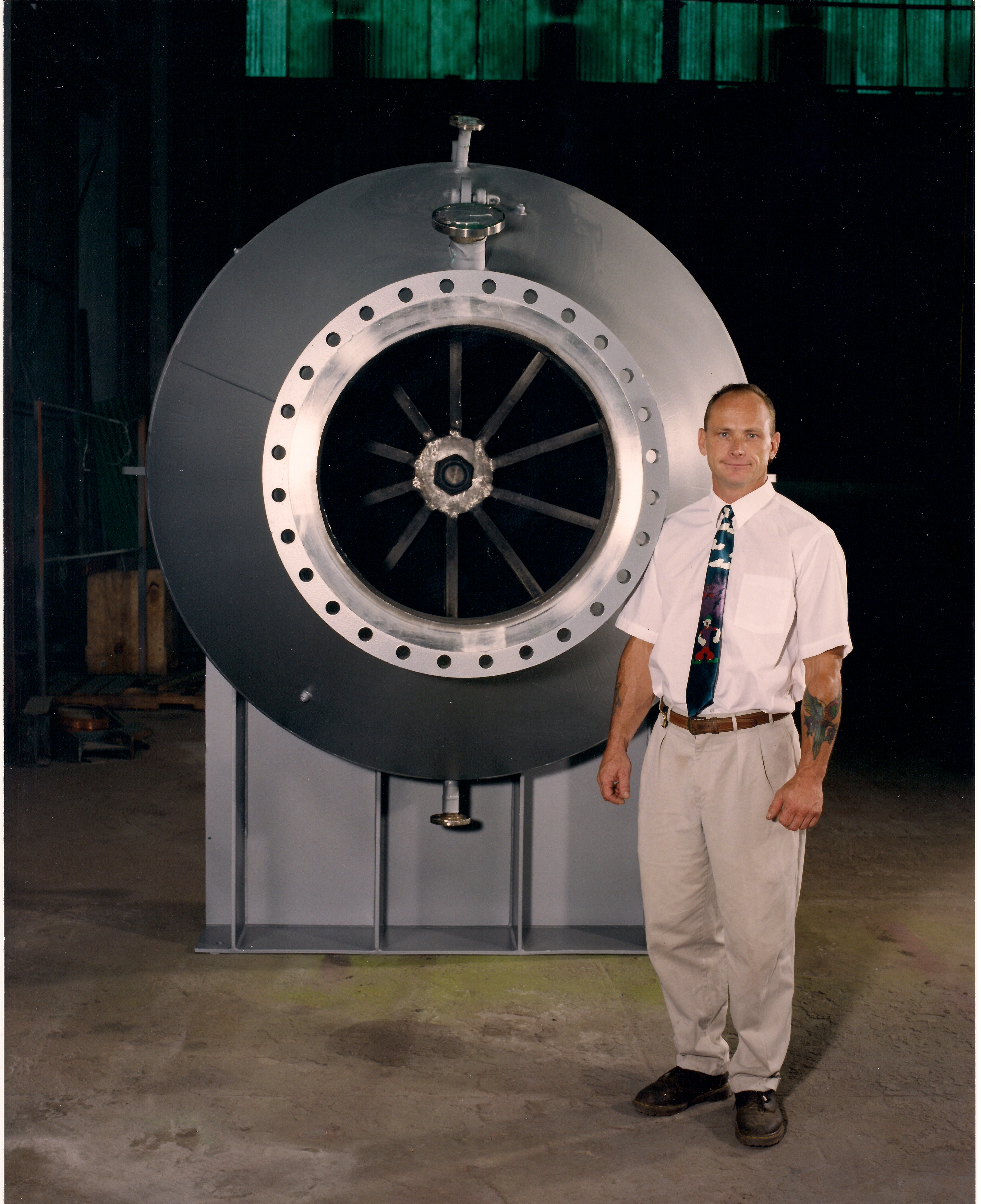 The largest detonation flame arrester ever built at the time. It was made for 30 inch pipe and weighed 10 tons. Designed and tested by Dwight Brooker & Nick Roussakis of Chem-Mech Engineering Laboratories Ltd. A Enardo Manufacturing engineer, Mike Wittman whom is now with John Zink Co., sold and managed the project